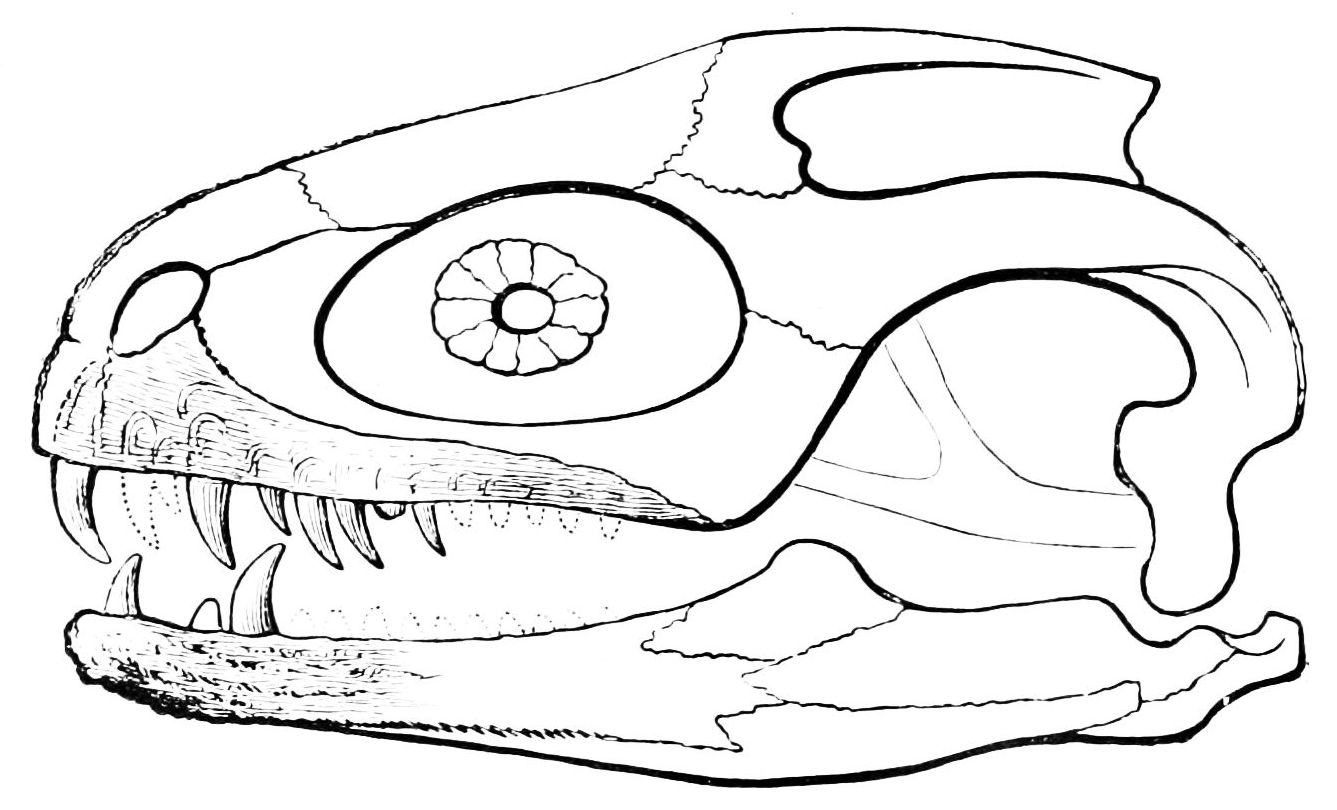 Original figure caption: Head of Megalosaurus, one tenth natural size (restored by Phillips).Additional notes: This historical reconstruction which is in fact an unmodified reproduction from a book by the British geologist John Phillips (cf. p. 199 in Geology of Oxford and the valley of the Thames, Oxford 1871) contains several bad inaccuracies. The reconstruction apparently is based on a lizard skull. Lizards, however, are only relatively distantly related to dinosaurs. This is why the reconstruction lacks many features which are typical for dinosaurs, e.g. an antorbital fenestra (instead of which it has a large and quite anteriorly positioned orbita), a lower temporal bar, and a mandibular fenestra.